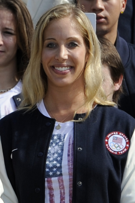 WASHINGTON (Sept. 14, 2012) Olympic fencer Mariel Zagunis poses for a photograph at the White House, Washington, D.C. (derived from U.S. Air Force photo by Desiree N. Palacios/Released) 120914-F-QE915-254 Join the conversation navylive.dodlive.mil